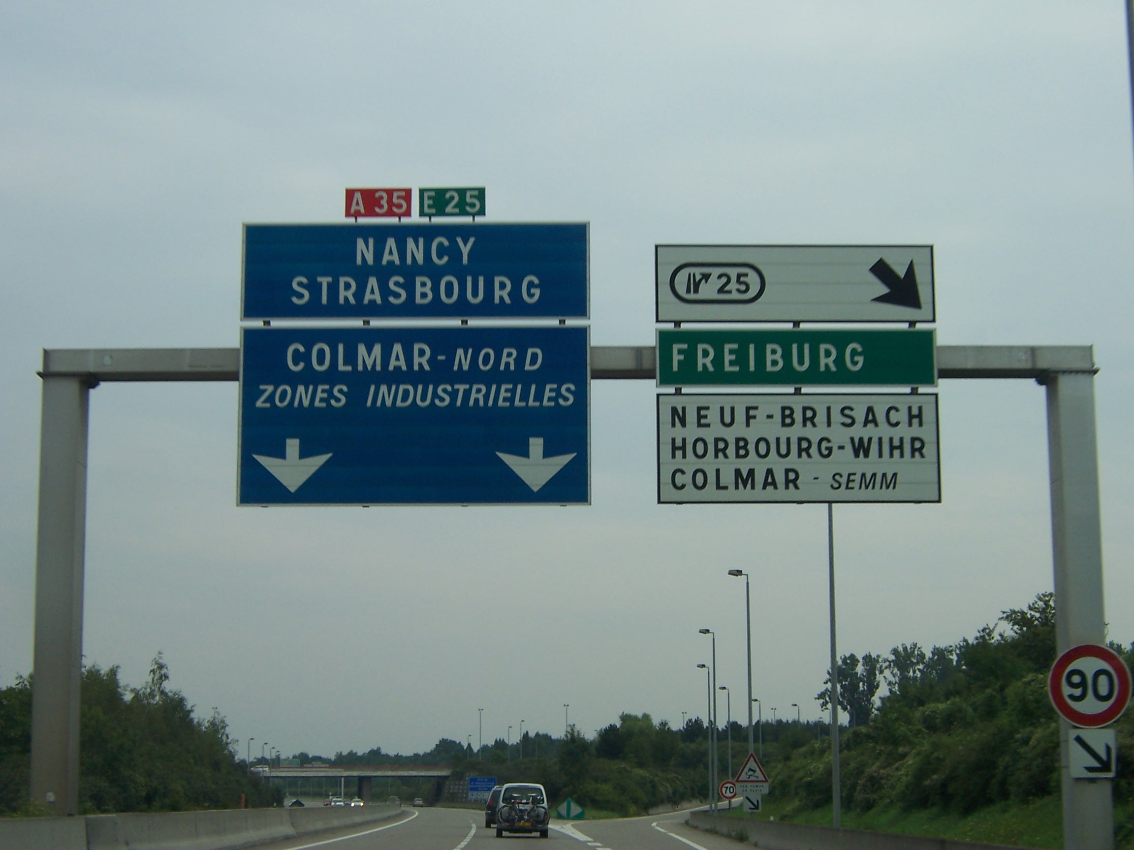 A35 motorway, south-north, exit 25 in Colmar (Alsace, France).